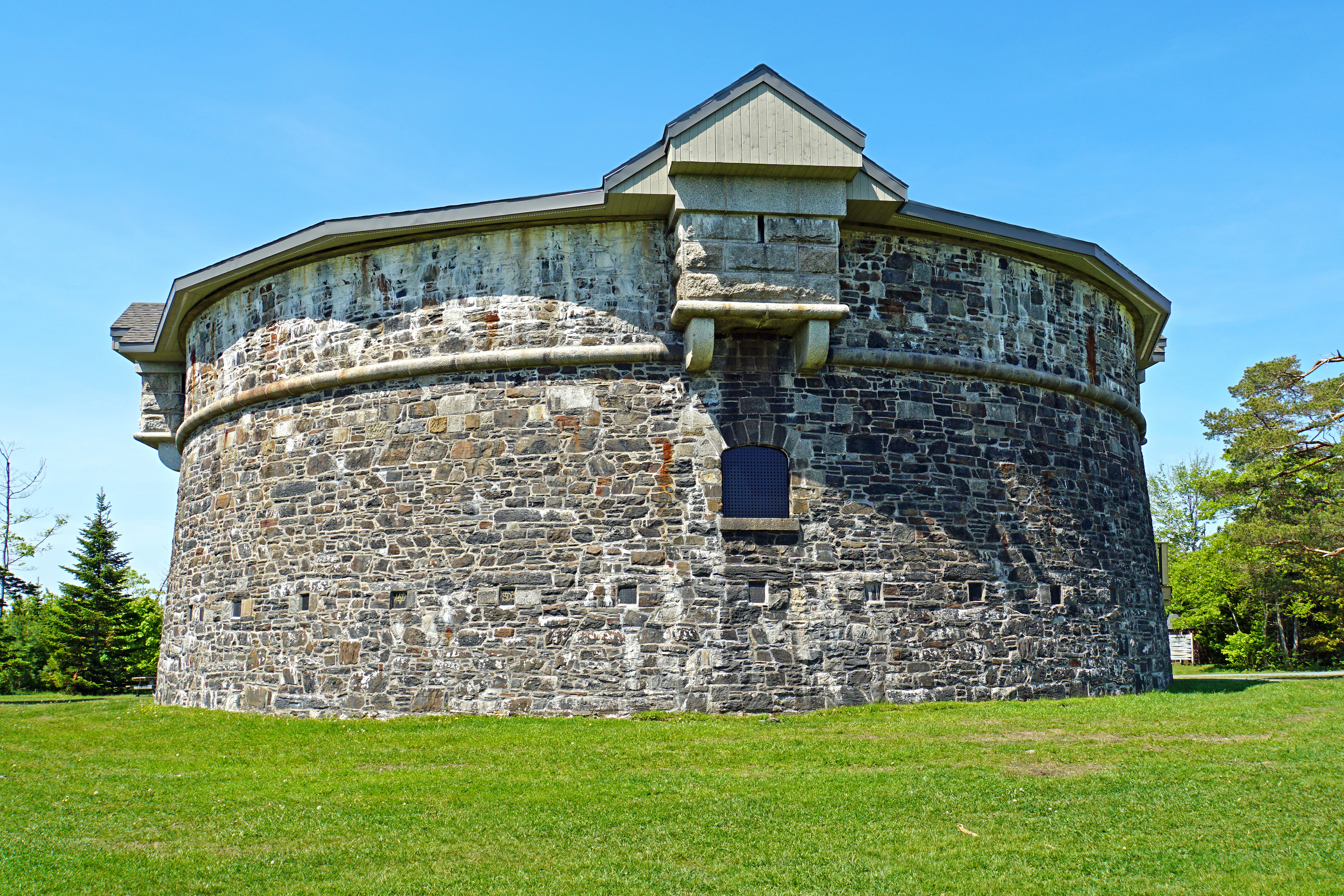 The Prince of Wales Tower is the oldest martello tower in North America and is located in Point Pleasant Park. It was built in 1796 by Captain James Straton and was used as a redoubt (supplementary fortification) and a powder magazine. Restored, it was designated a National Historic Site of Canada in 1943.